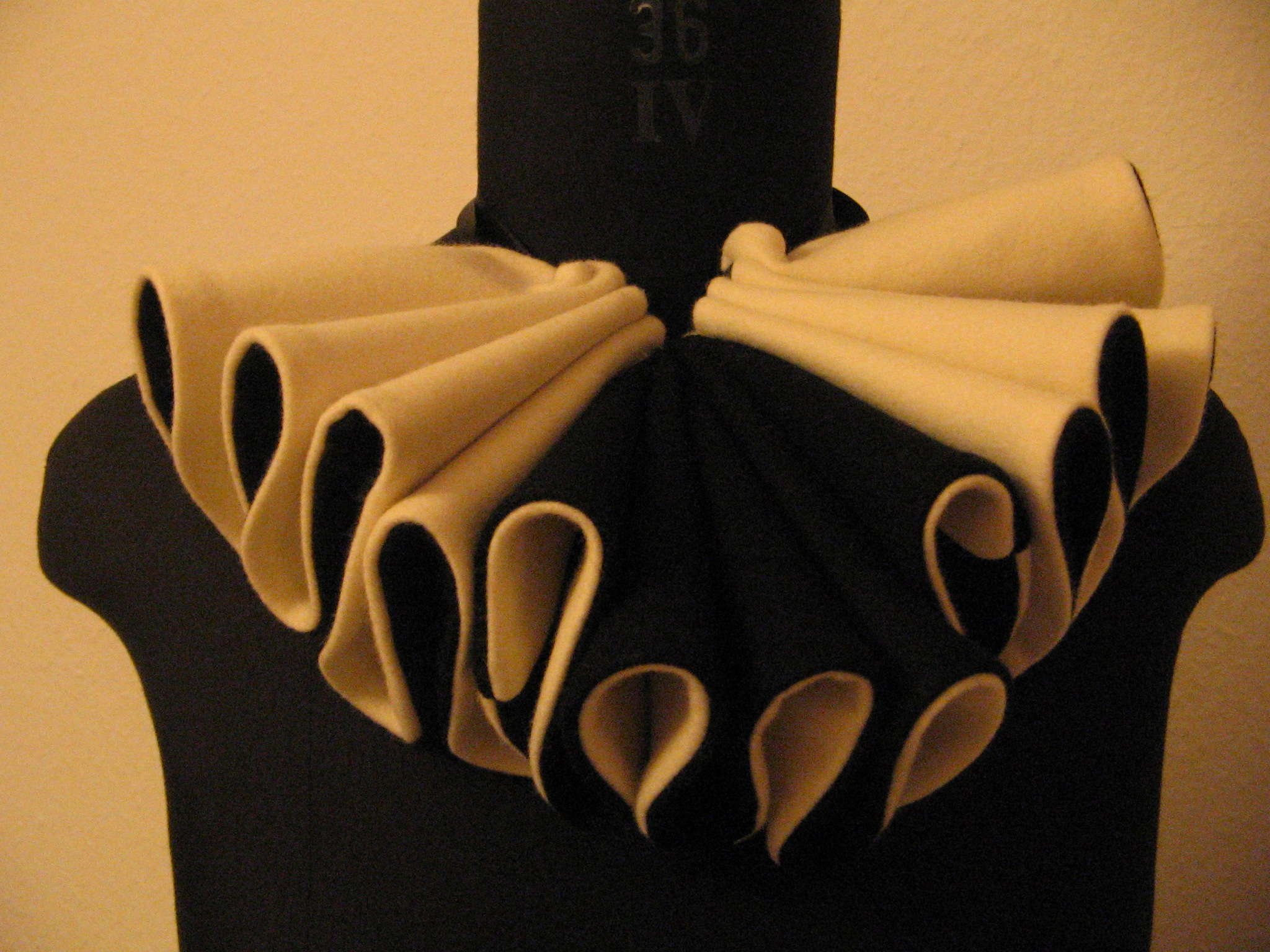 Pierrot-collar